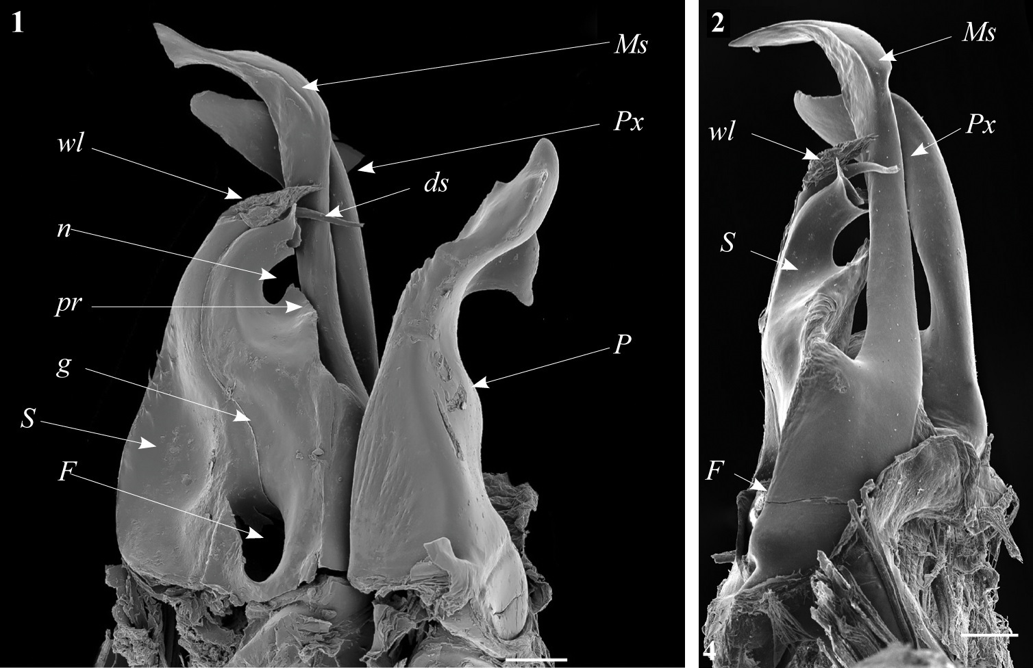 Ommatoiulus chambiensis (Julidae) paratype, gonopod structures. 1. Right gonopod, mesal view. 2. Right posterior gonopod, anterior view. Abbreviations: ds distal process of the solenomerite, F fovea, g seminal groove, lp lateral apical process of promerite, M mesal ridge, Ms mesomerite, n notch of the solenomerite, P promerite, pr triangular process of the solenomerite, Px paracoxite, S solenomerite wl wrinkled lamella. Scale bar: 0.1 mm. Adapted from Figs. 1 and 4 in Akkari et al. 2013. ZooKeys 328: 5–45.